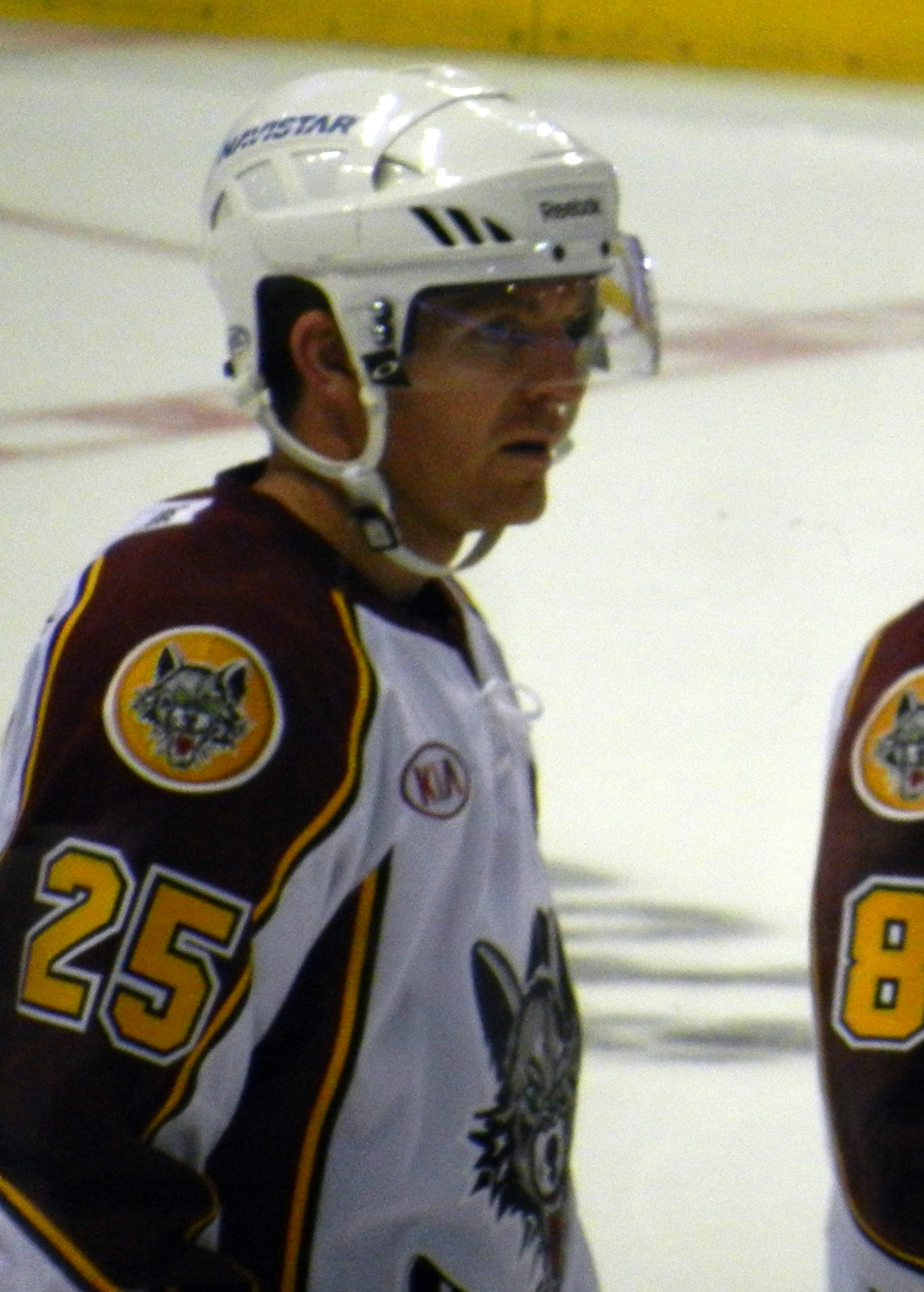 Mark Matheson playing for the Chicago Wolves during the 2012-13 AHL season